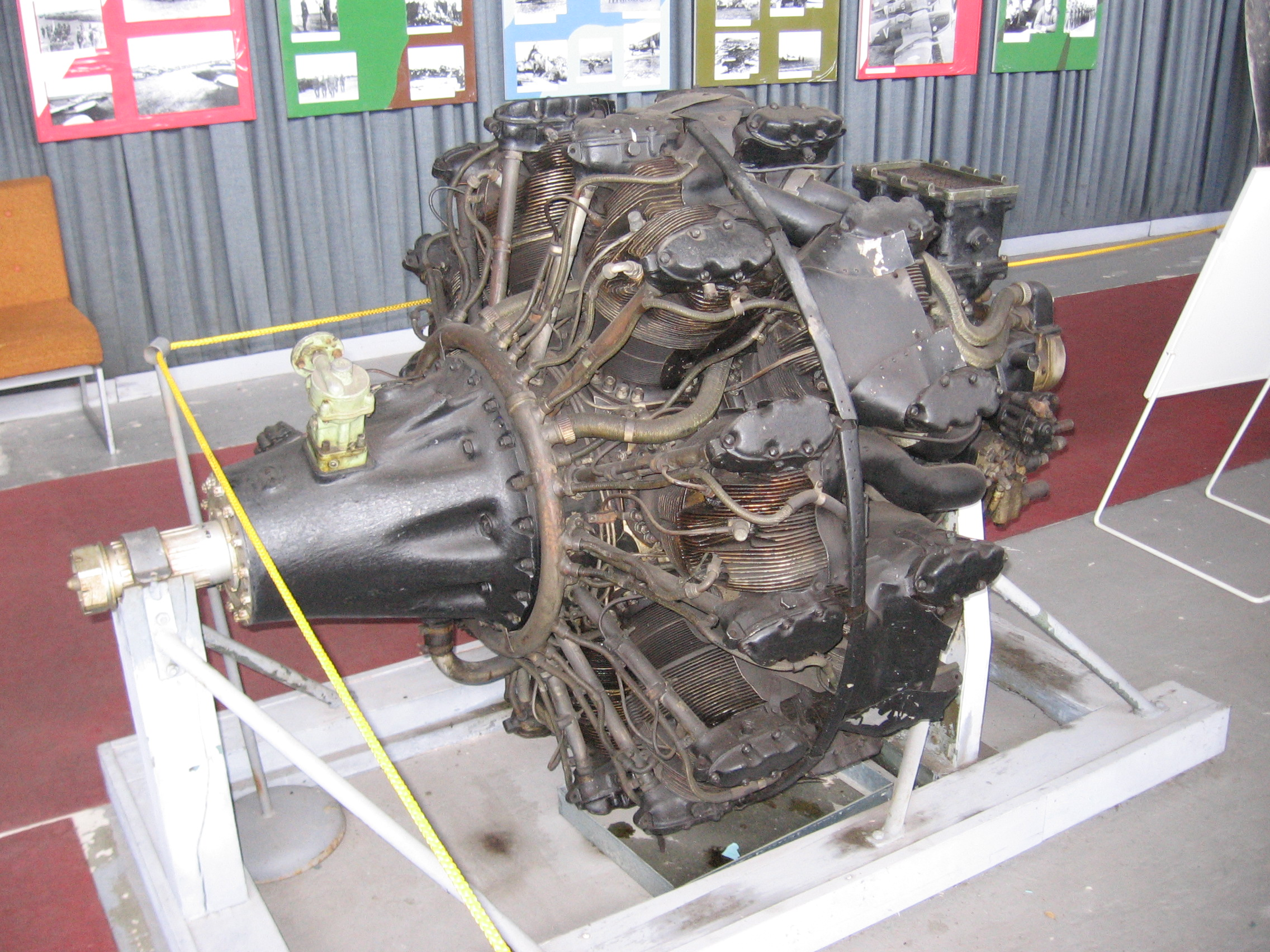 Shvetsov ASh-82T at Prague Aviation Museum, Kbely.